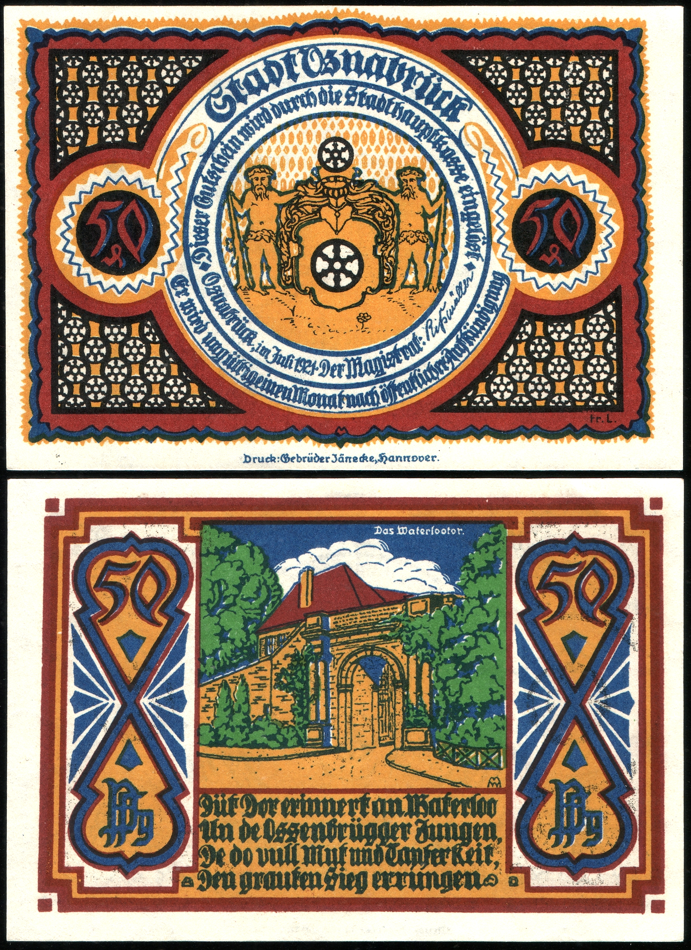 50 Pfennig Notgeld banknote of Osnabrück, RV: "Waterlootor" (1921), size: 65 mm x 94 mm.